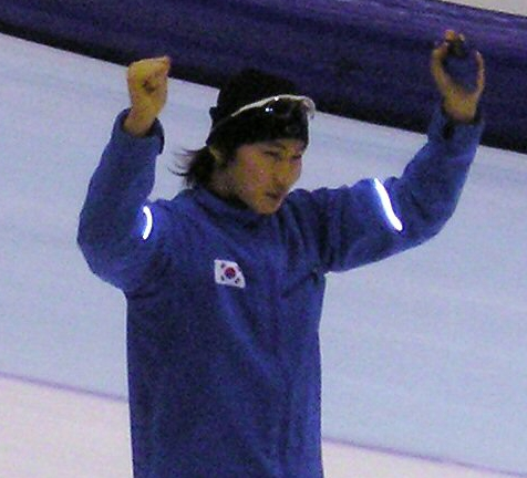 Lee Kang-seok (KOR) at a World Cup in Thialf (Heerenveen, The Netherlands) Version cropped for infobox